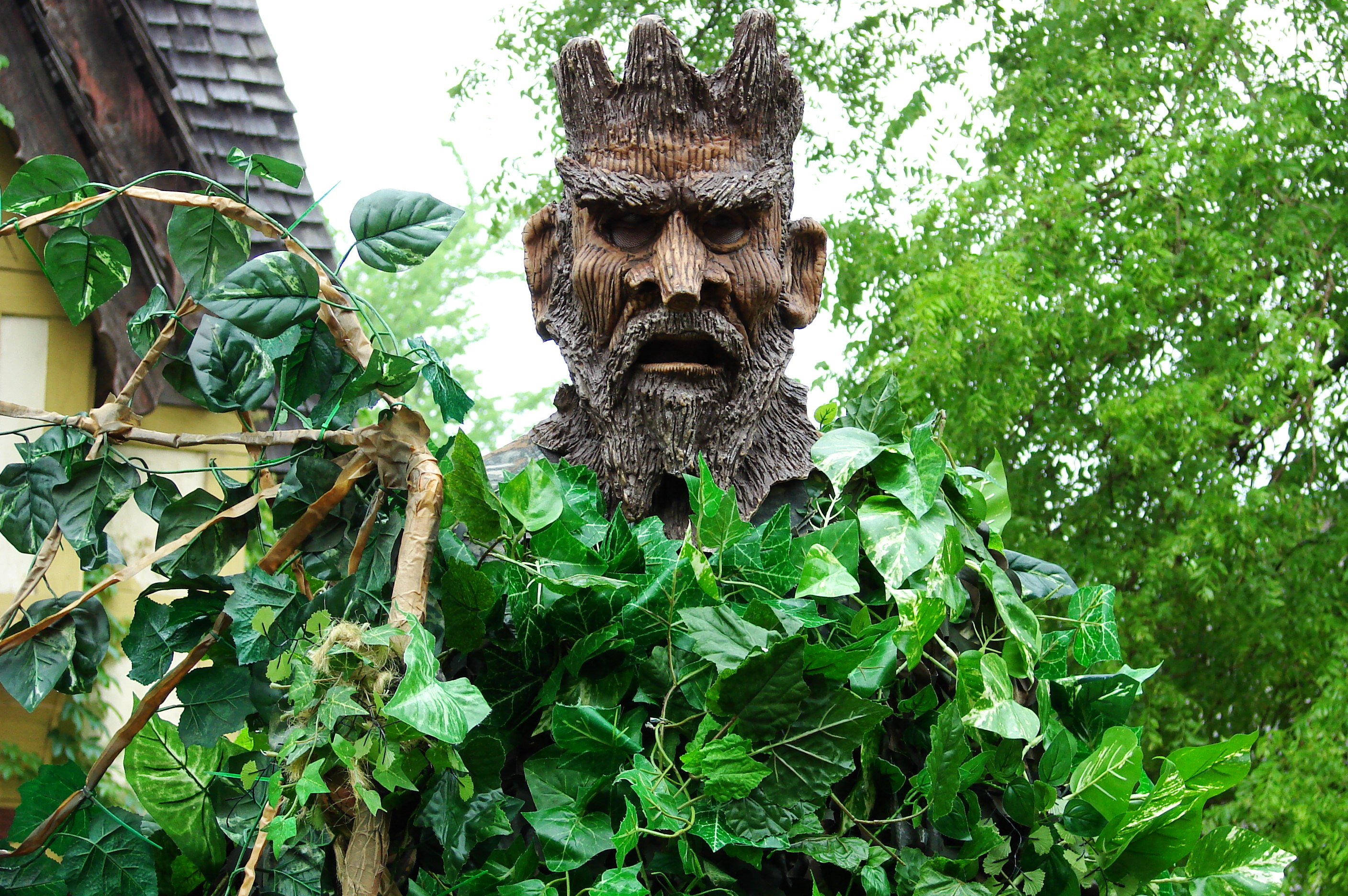 Costumed Ent character at Scarborough Renaissance Festival (Waxahachie, Texas)